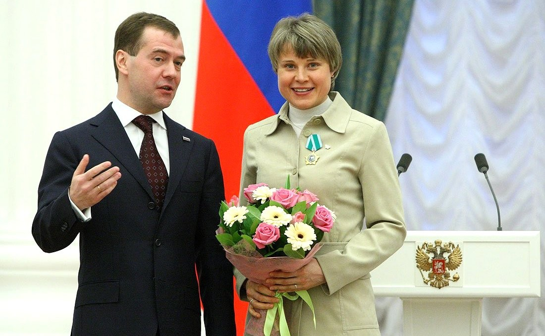 Anna Bogaliy-Titovets in Kremlin